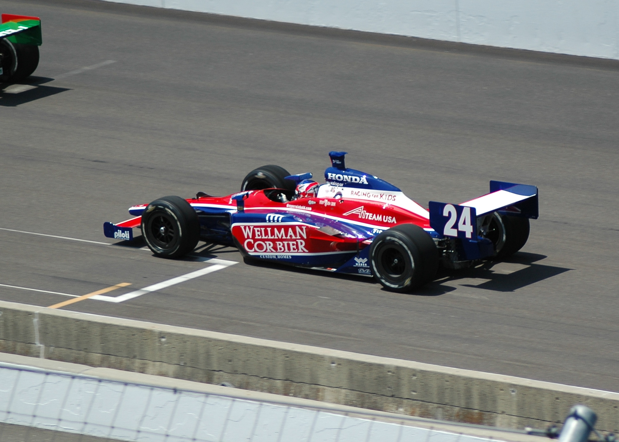 Roger Yasukawa practicing for the en:2007 Indianapolis 500